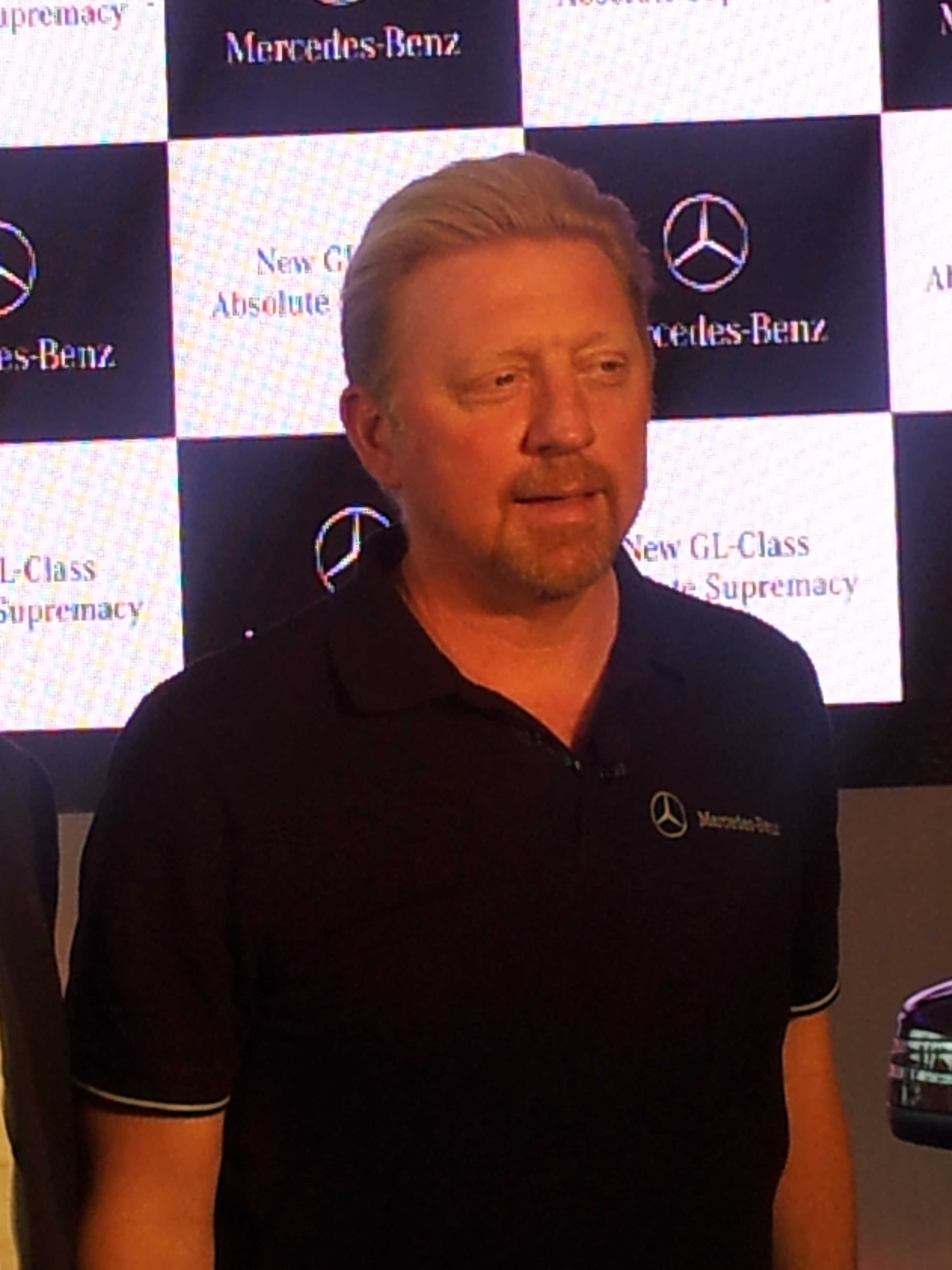 Boris Becker at Mercedes Benz GL class Launch in Bangalore, India